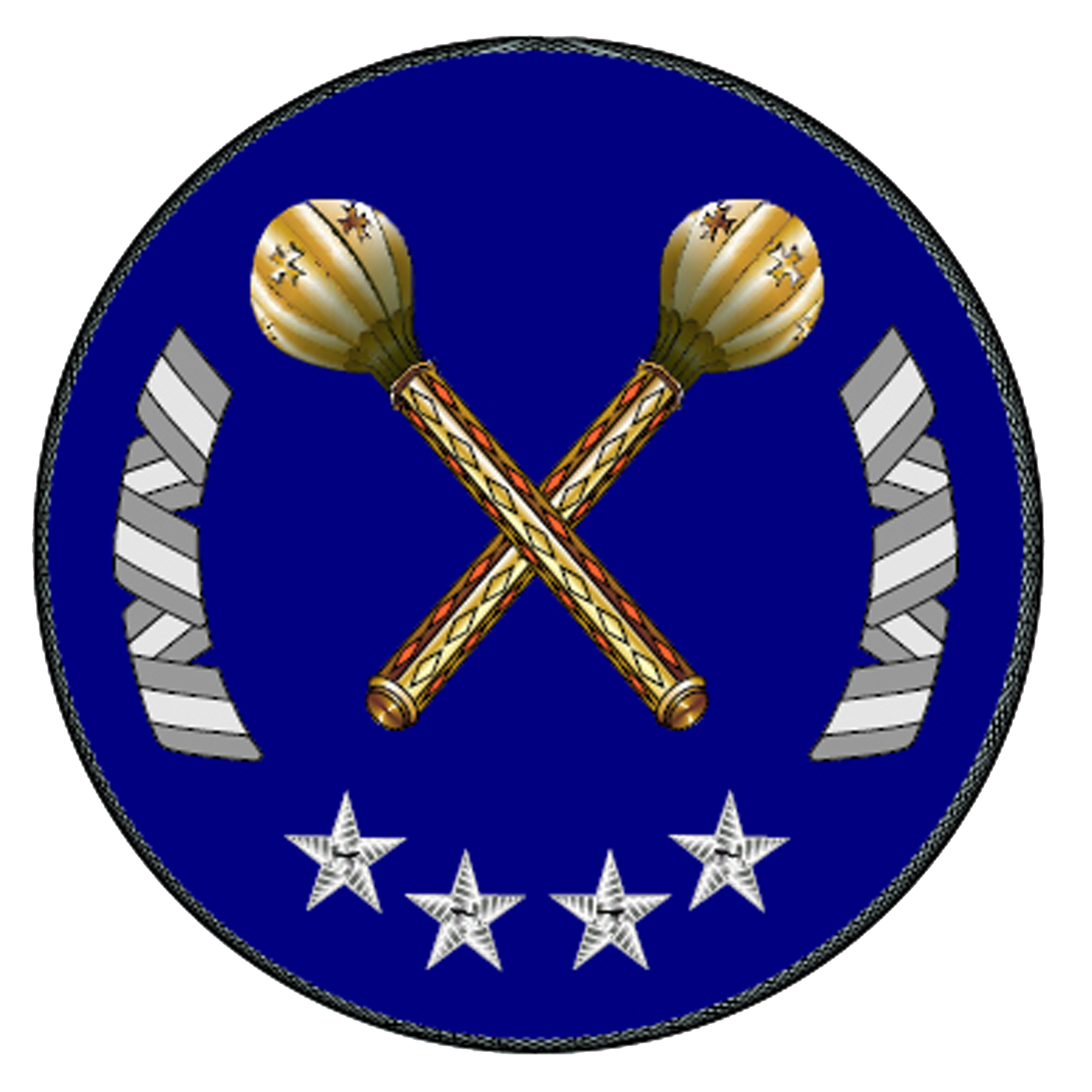 Emblem of the Chief of the General Staff of the Polish armed Forces – dress uniform.